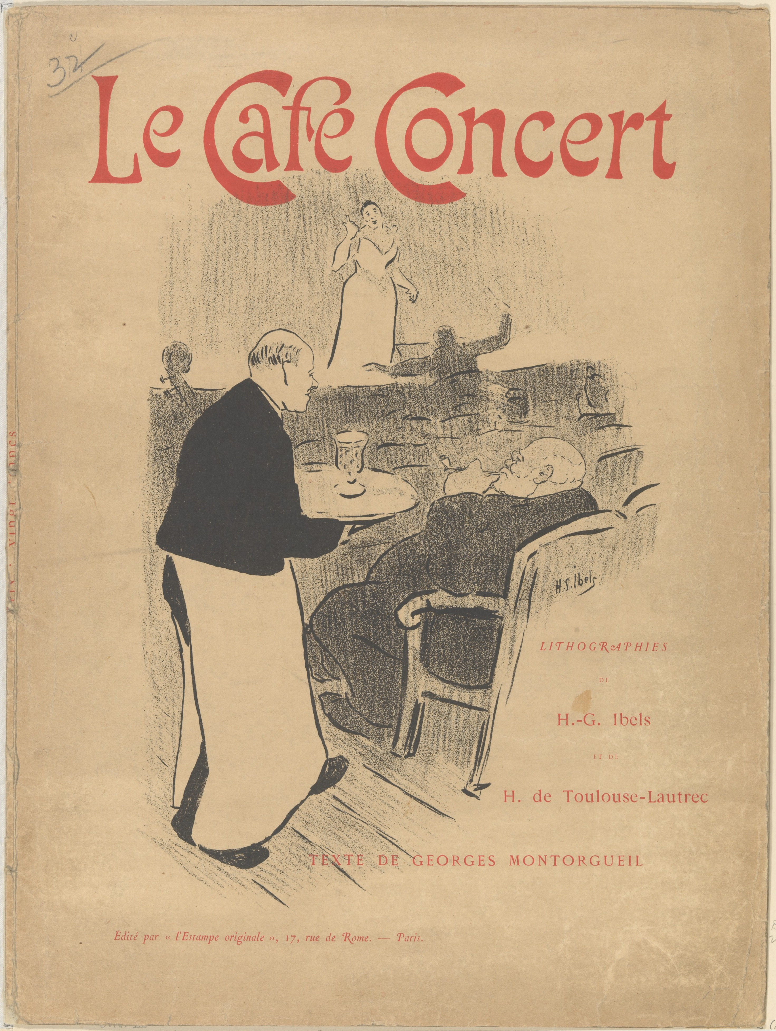 Print; Prints